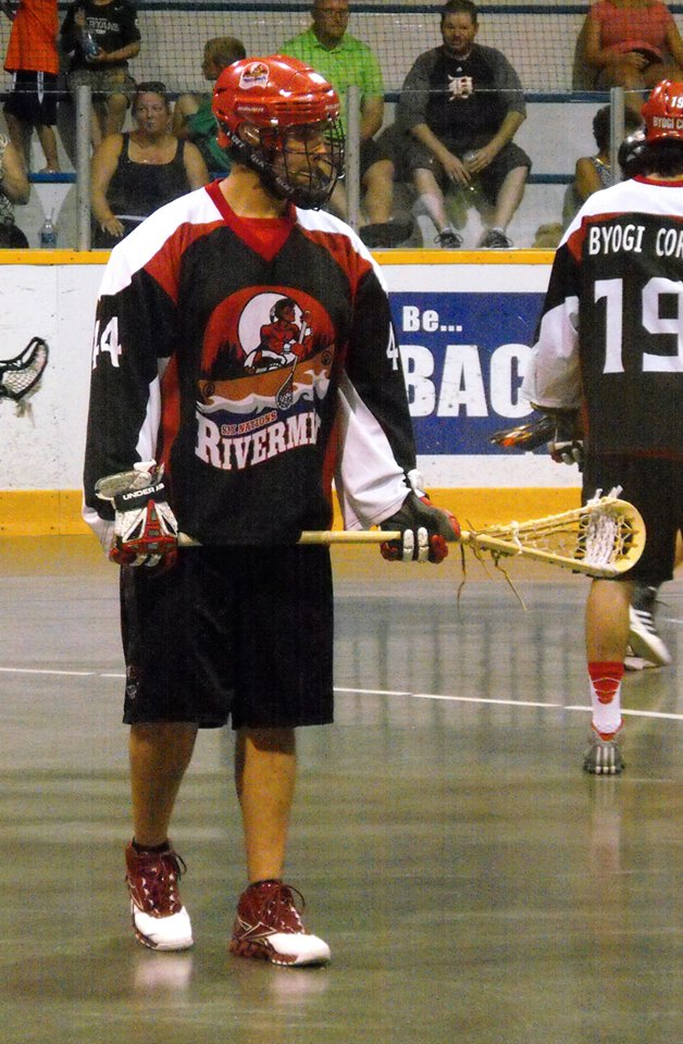 These images of Ontario Senior B Lacrosse Action action during the 2014 season are taken by Devan Mighton.